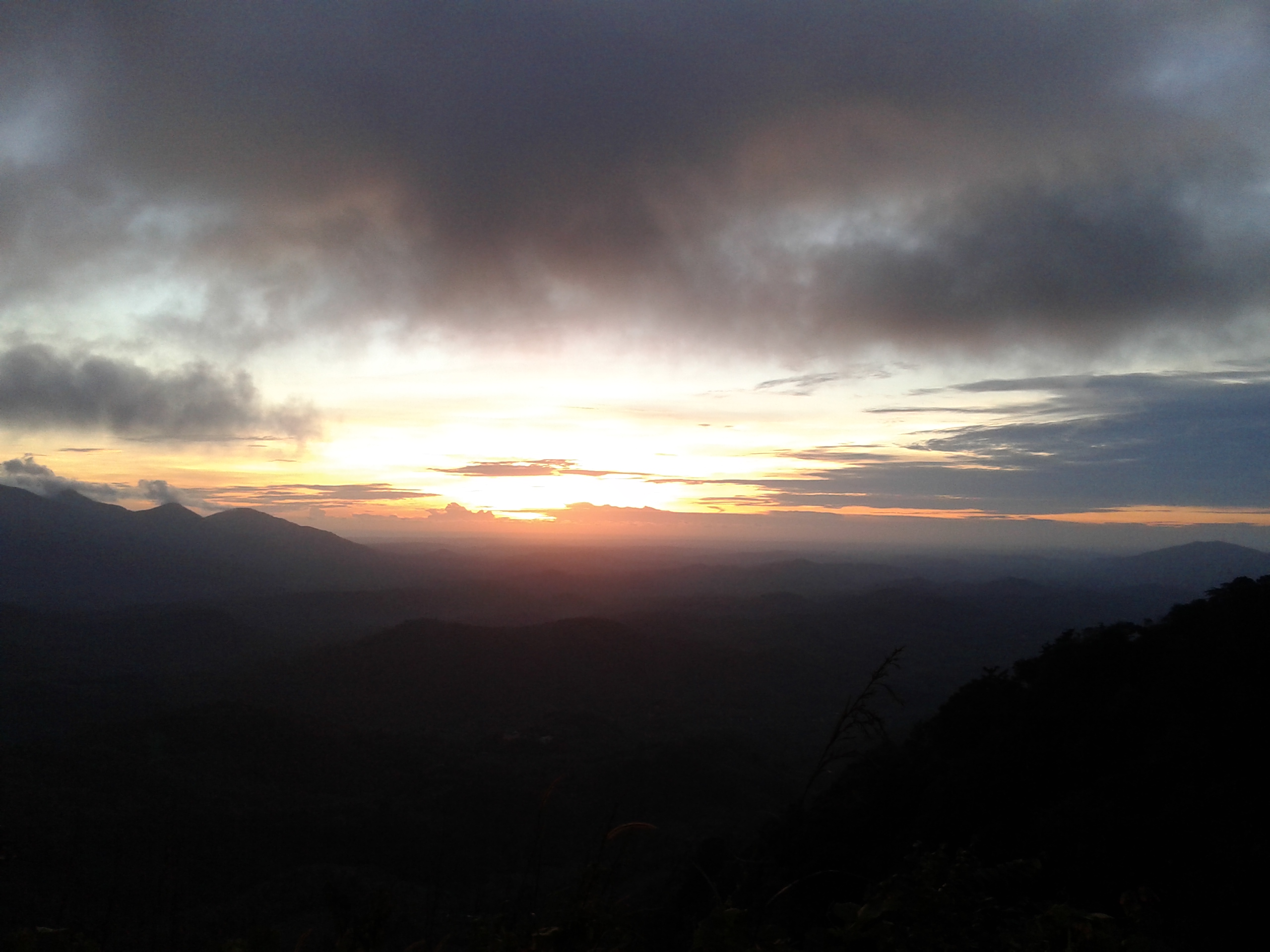 Elapeedika